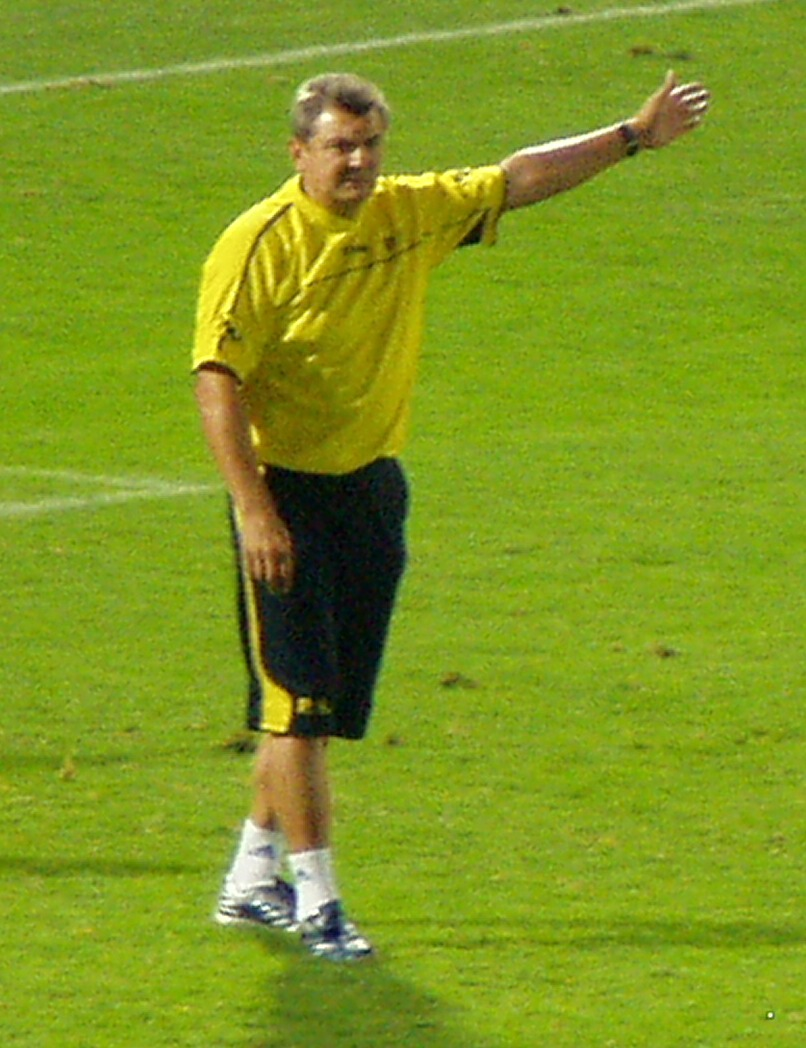 Photo of Slavko Petrović during his tenure in Hungary